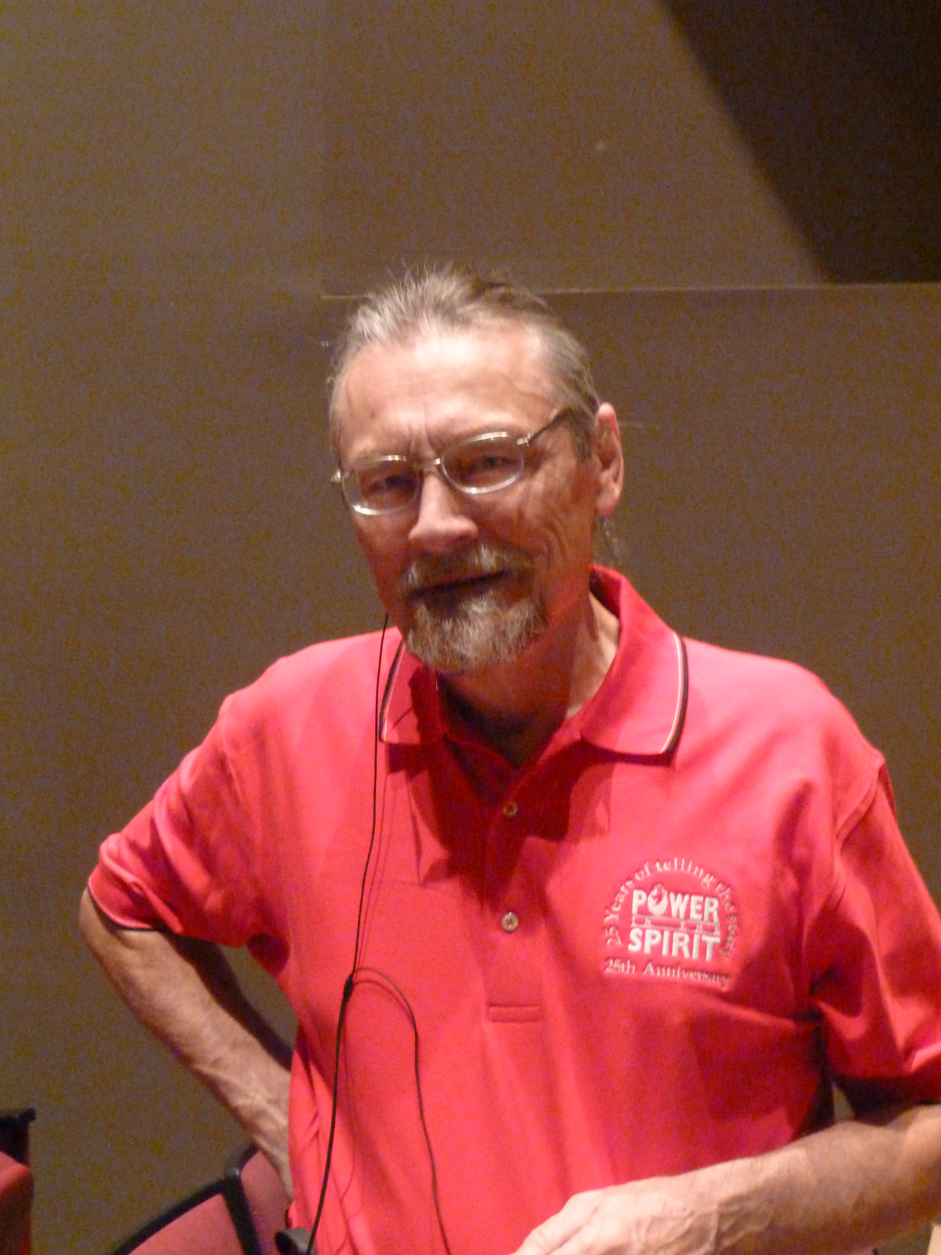 Walter Wangerin Jr July 2011 at ELCA Virginia Synod "Power in the Spirit"